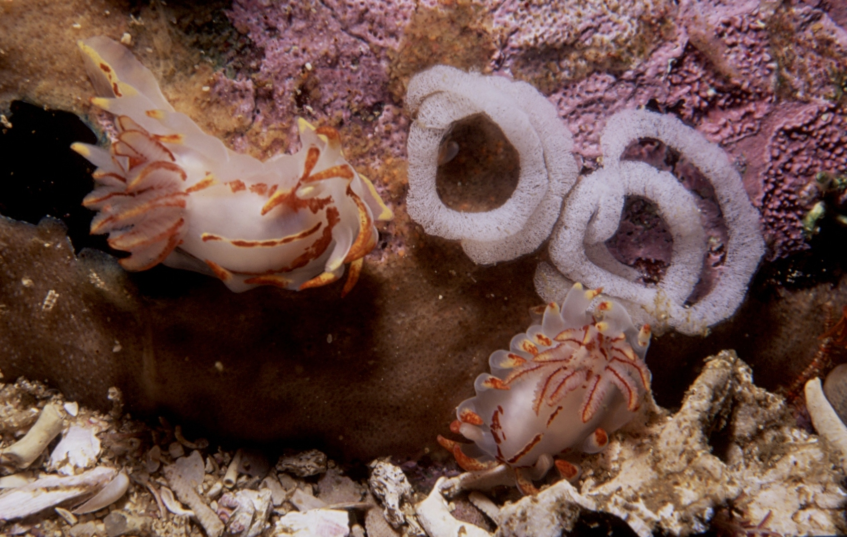 A photo of two fiery nudibranchs, Okenia amoenula and their egg ribbons, taken in False Bay off the Cape Peninsula in 24m of water using a Nikonos V camera. Animals about 20mm total length.